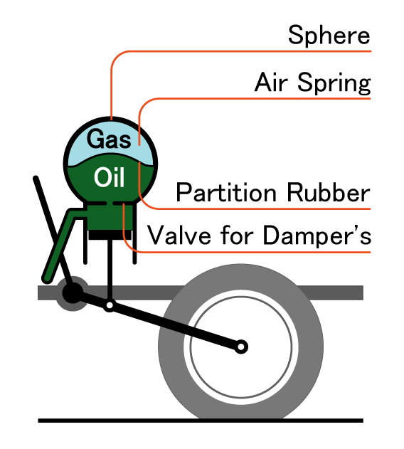 A conception diagram of hydropneumatic suspension.